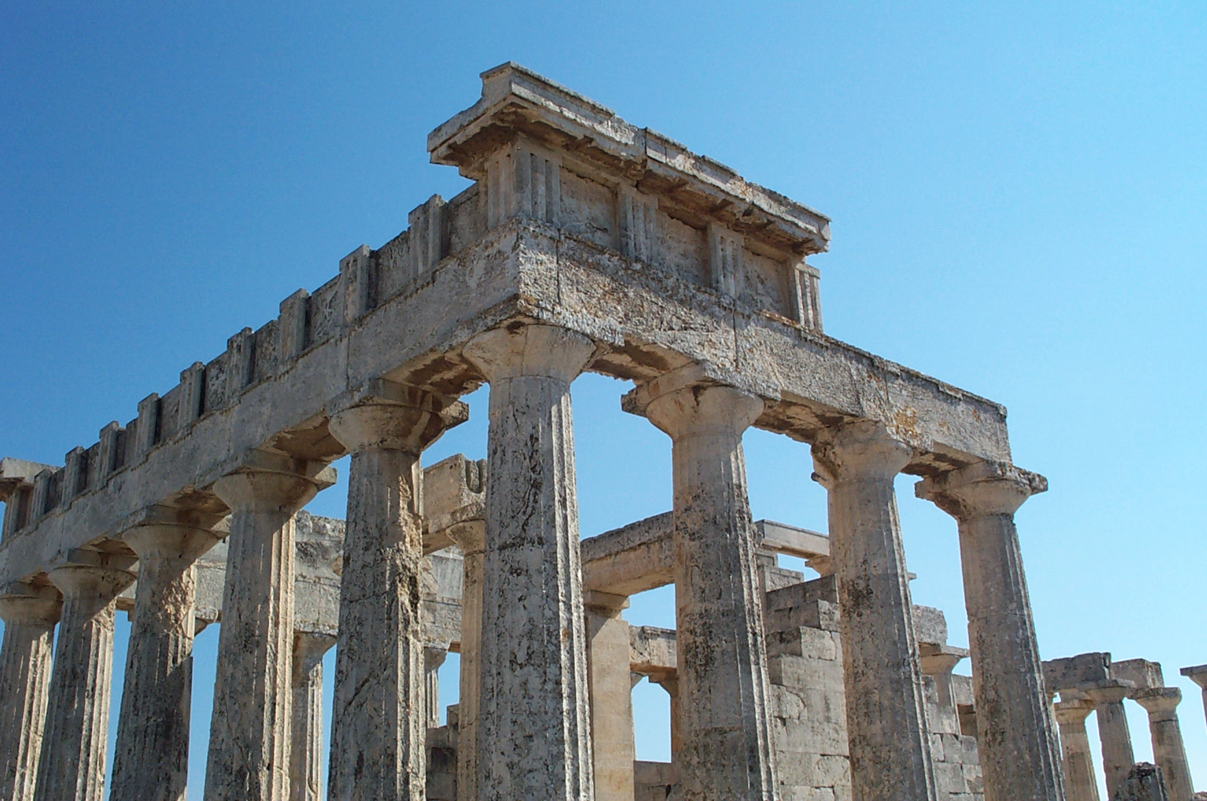 Temple of Aphaia on the Greek island of Aegina